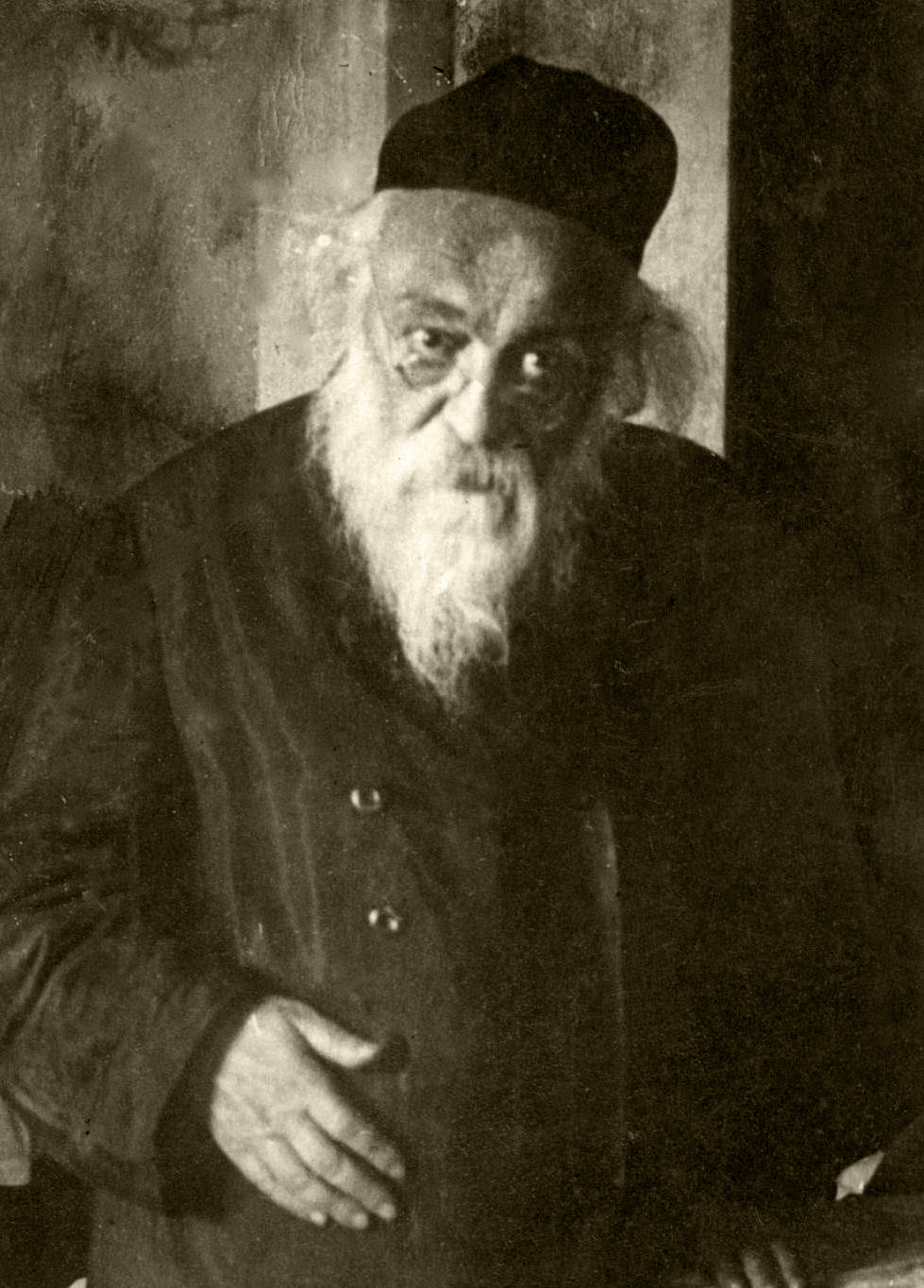 Picture of Chaim Soloveitchik